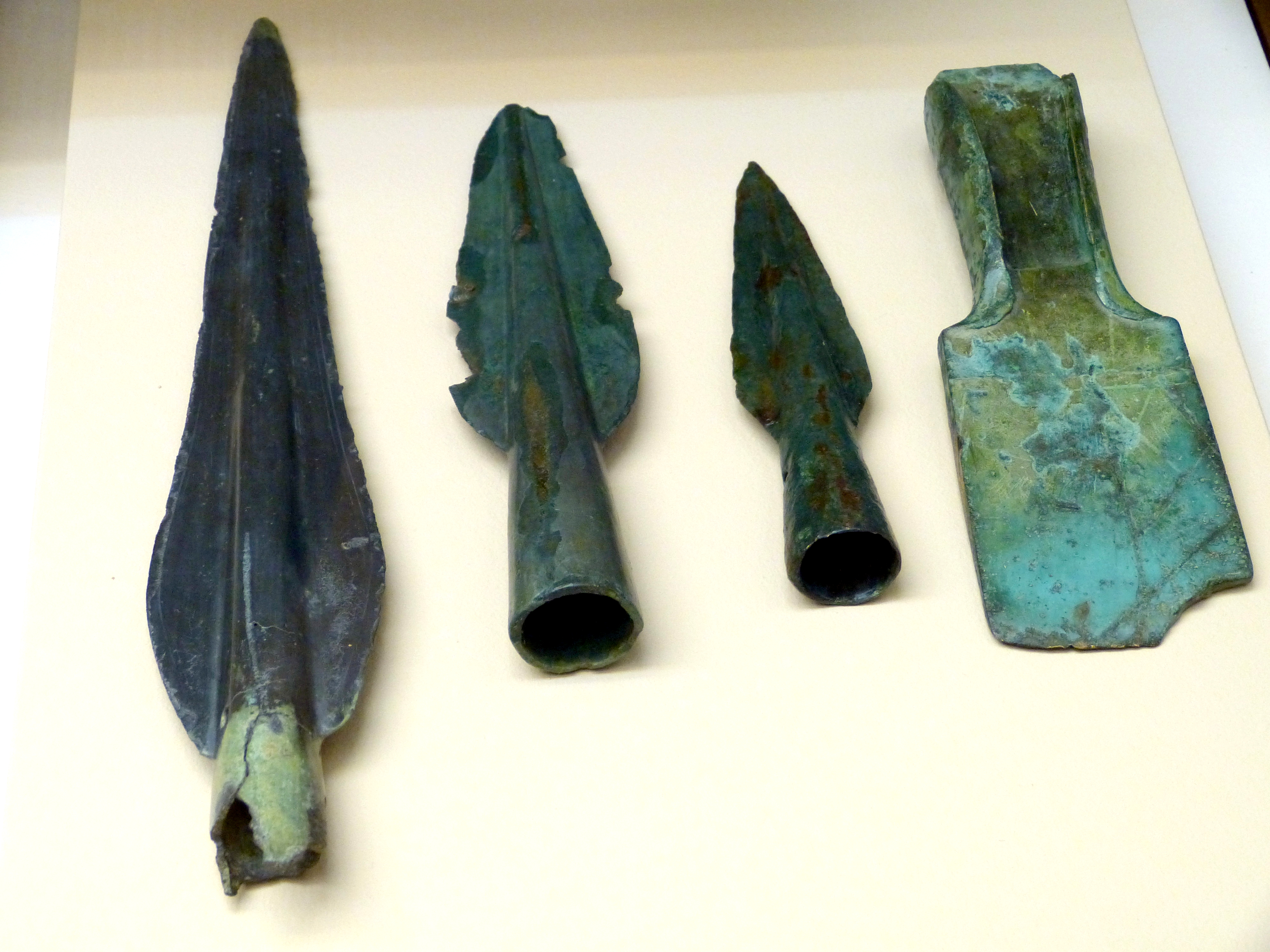 Straubing ( Lower Bavaria ). Gäubodenmuseum: Bronze spearheads and axe from a hoard in Entau ( Straßkirchen ), Urnfield culture.